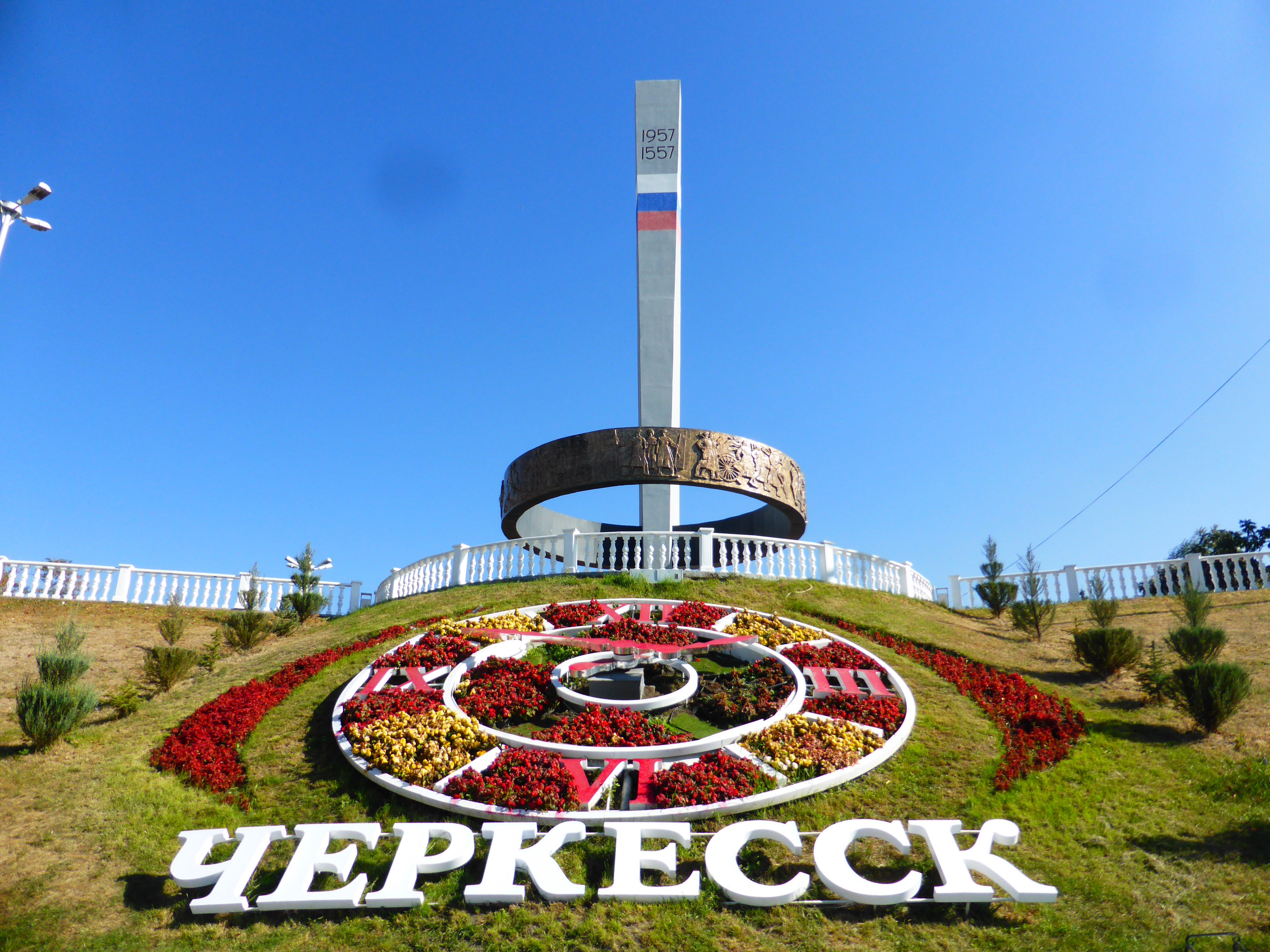 Monument "Friendship of peoples", Cherkessk